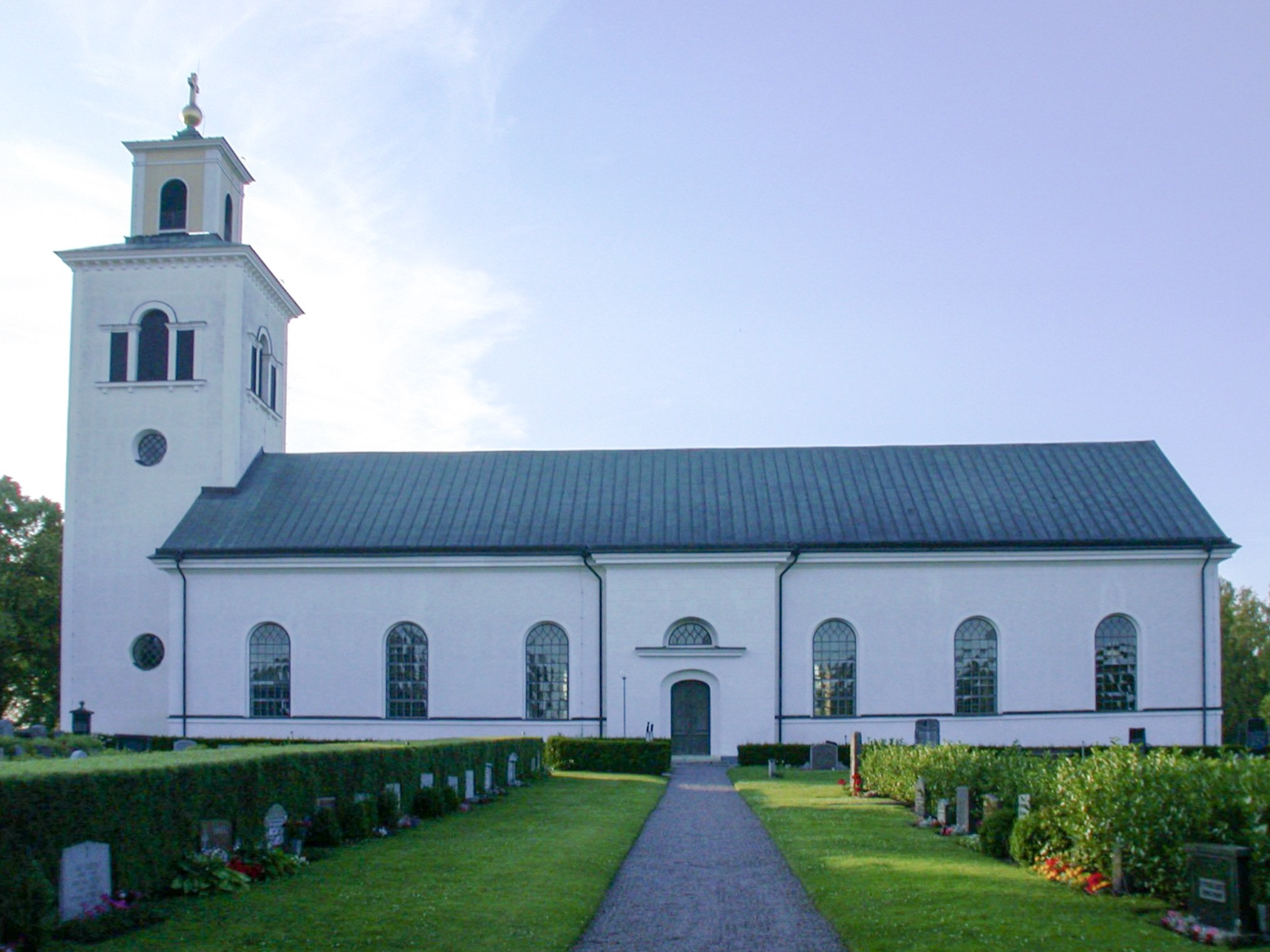 Klockrike church, Motala, Sweden. Photo by Riggwelter, July 12, 2006.